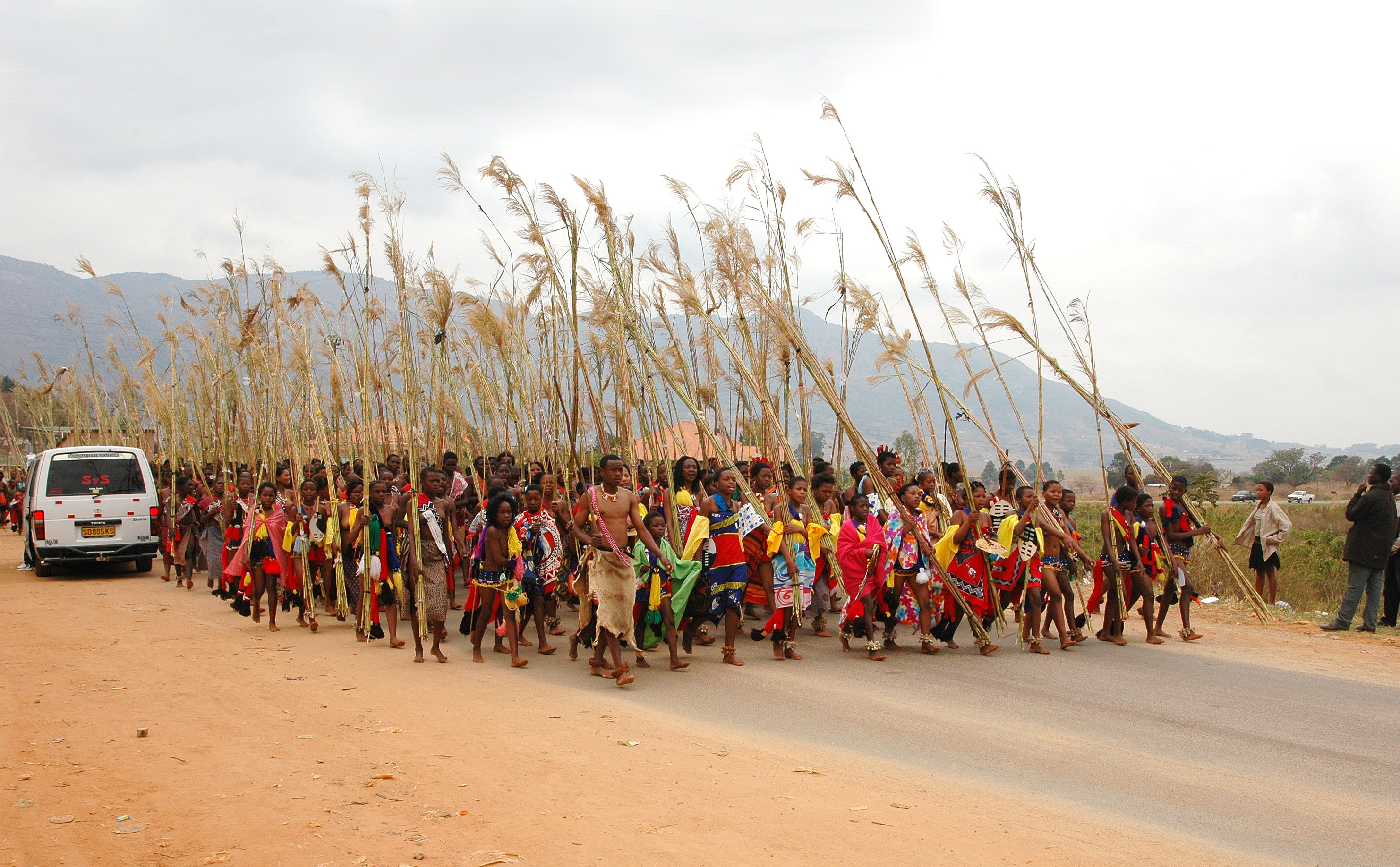 Eswatini: The Reed Dance Festival 2006